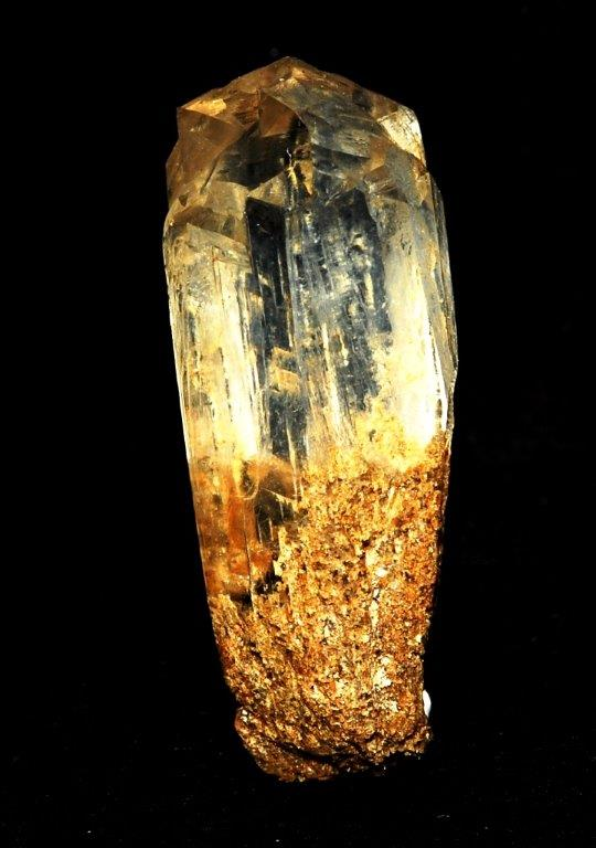 Phenakite from a beryl dissolution cavity at the Noumas II pegmatite, South Africa. (Size:1.2x0.5x0.4cm).